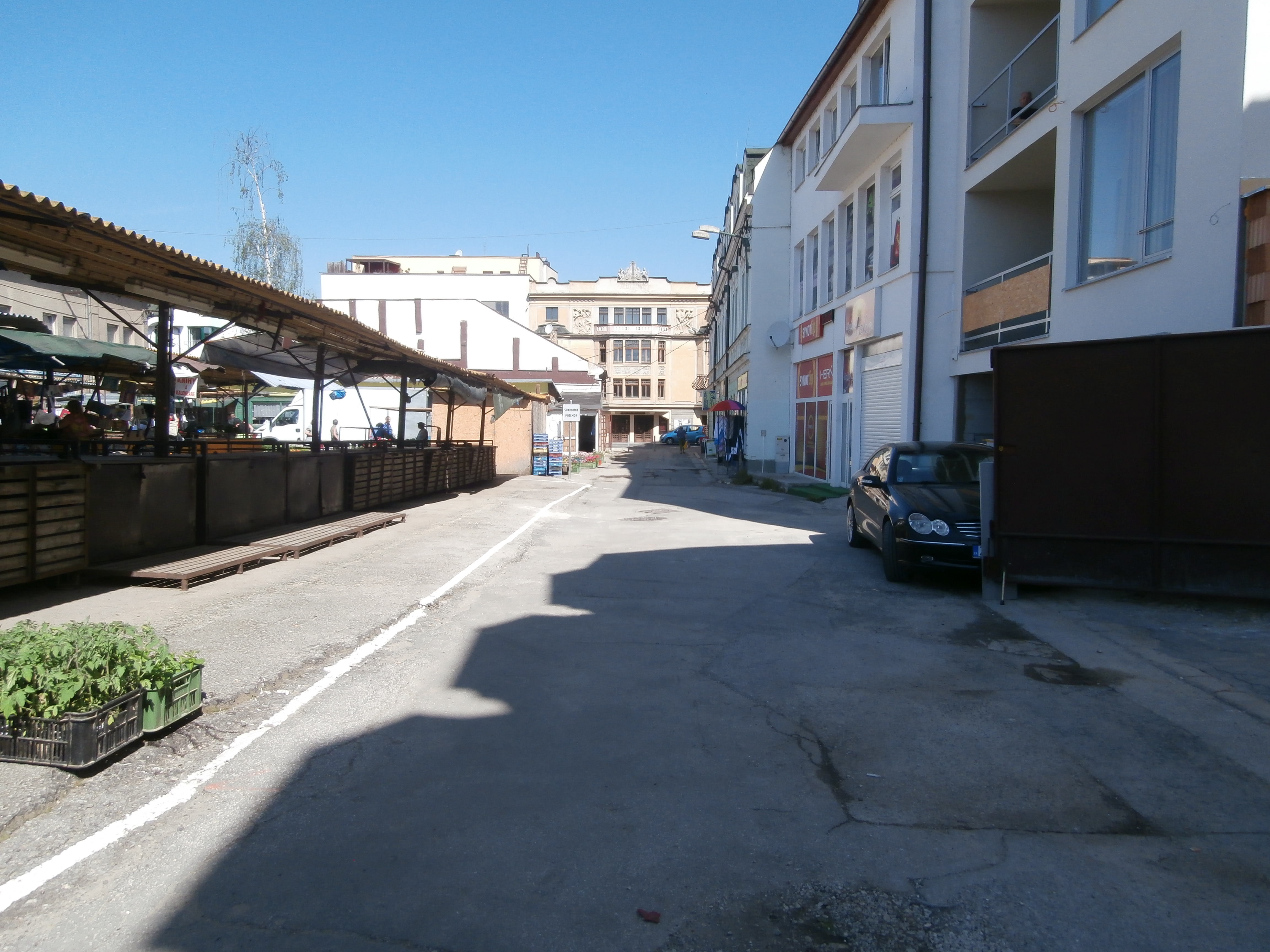 This is a street in Žilina.